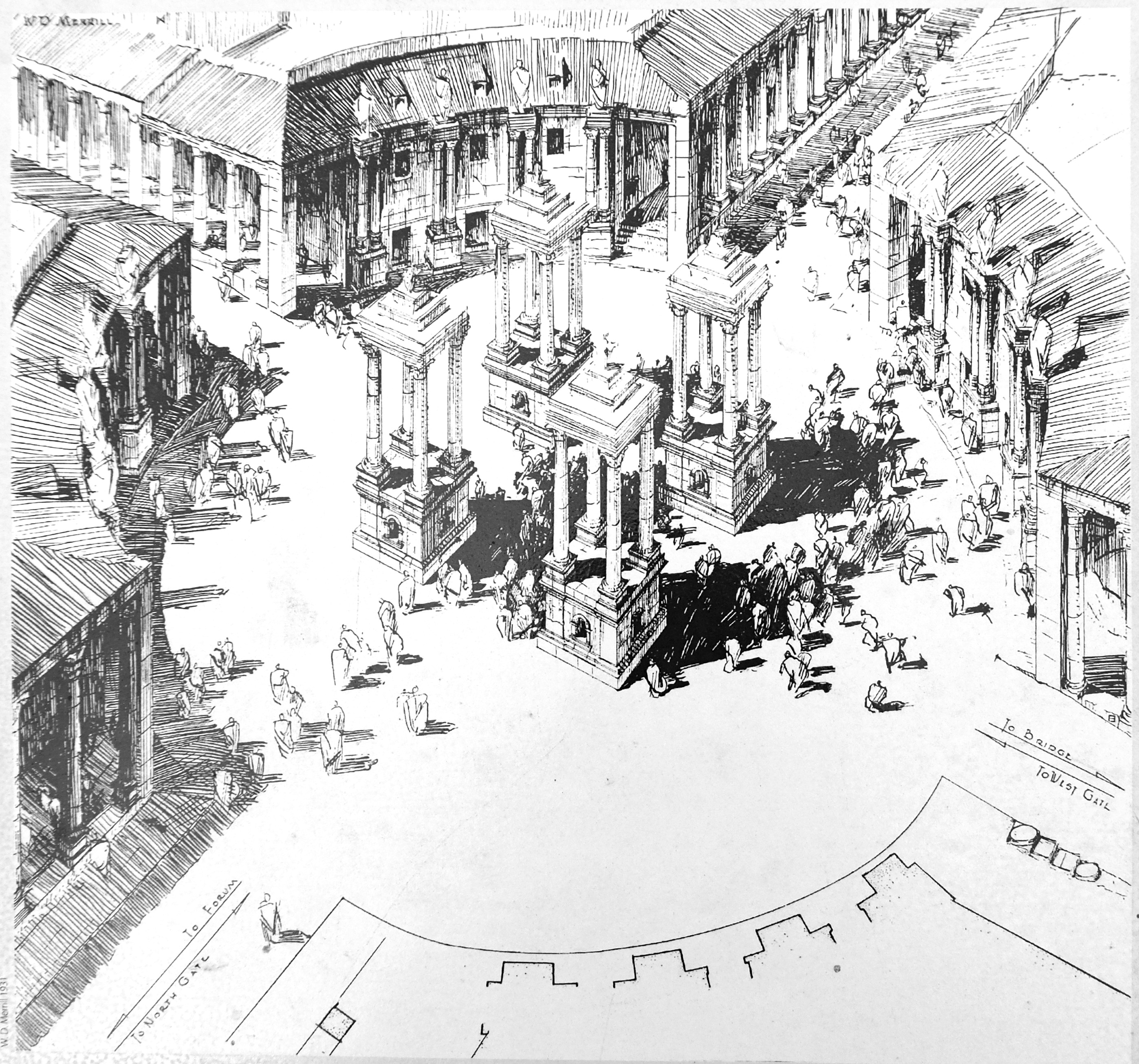 South Tetrapylon